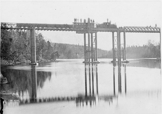 Mira River Railroad Bridge - 1876. A view of the Railway Bridge crossing the Mira River, Cape Breton Island, Nova Scotia, Canada. Span of 300 feet. Although Sydney had a much more suitable harbour than Louisbourg, the former was frequently choked by heavy sea ice during the important coal-shipment season throughout the winter months. Louisbourg Harbour, which had been selected by the French military for its year-round ice-free waters when building Fortress Louisbourg during the early to mid-18th century, again became a valuable port when a railway line was built from the mines at Reserve to Louisbourg in 1877. This line was poorly built and was soon lost to a forest fire.